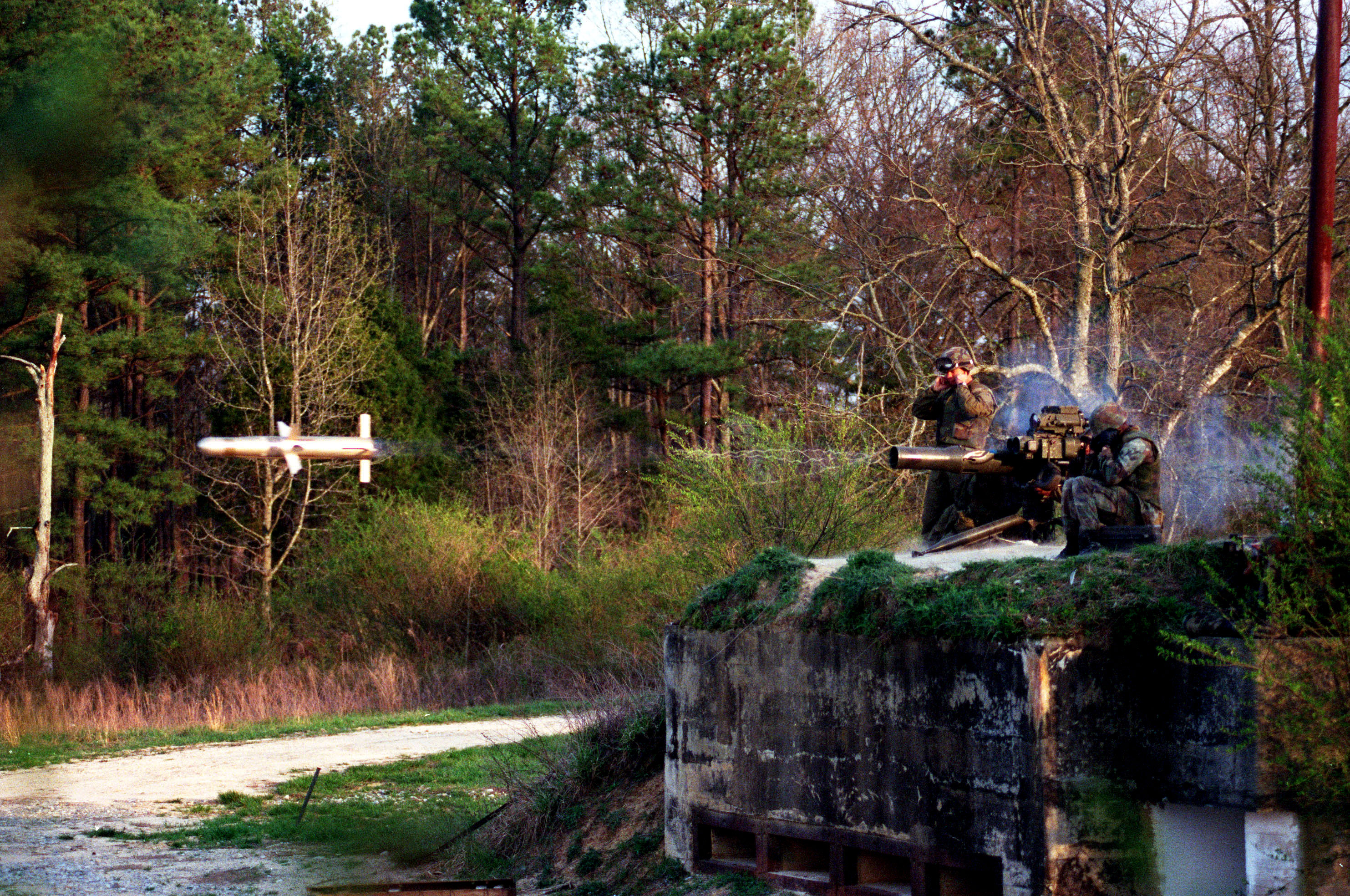 U.S. Marines fire a Tube launched, Optically tracked, Wire guided missile on the firing range during an exercise at Fort Pickett, Va., on March 30, 1998. The Marines are attached to Bravo Company, Weapons Platoon, 2nd Light Armored Reconnaissance Battalion, Camp Lejeune, N.C.